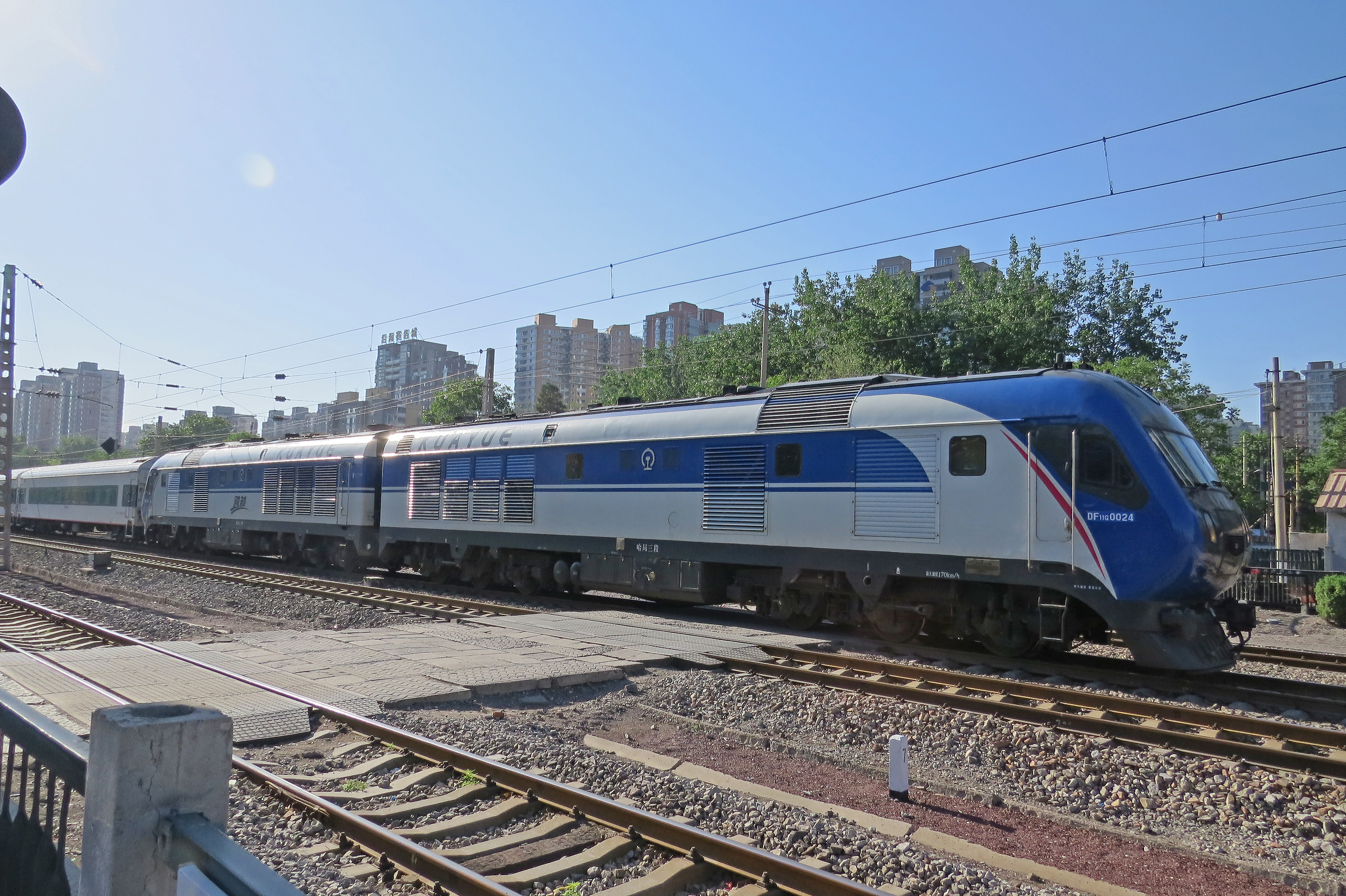 Z16 from Harbin, although delayed.